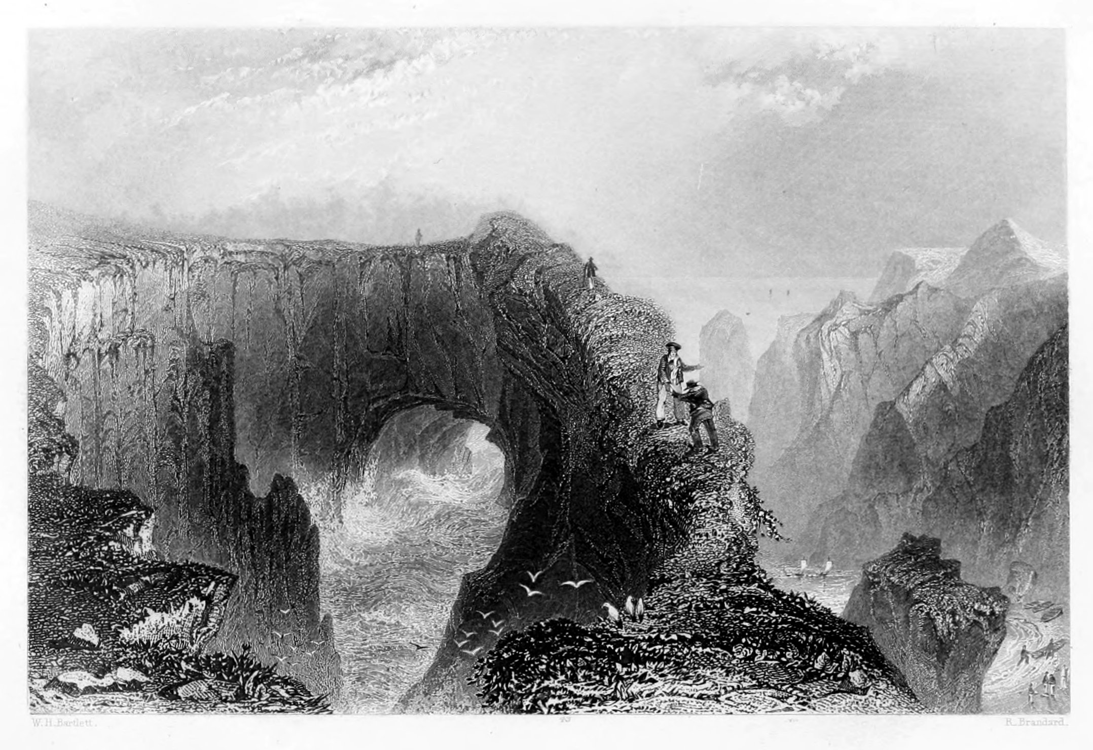 The Buller of Buchan (now known as the Bullers of Buchan)